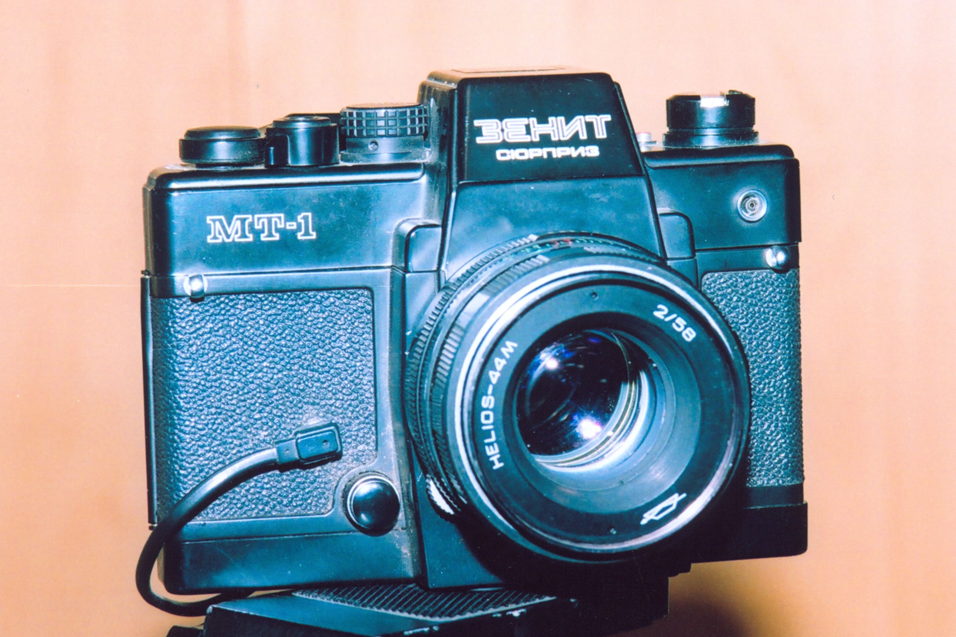 Фотоаппарат "Зенит-сюрприз"